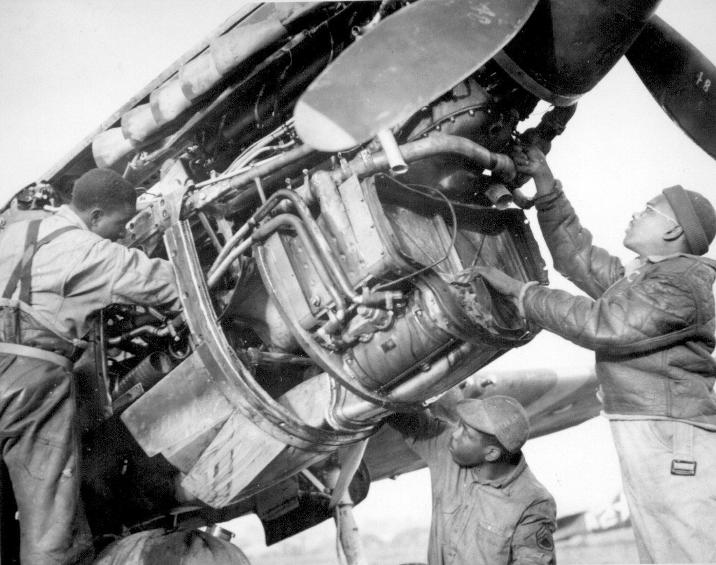 Mechanics of 99th FS "Tuskeegee Airmen" (332nd Fighter Group-15th USAAF) repairing P-40 engine. George Johnson and James C. Howard are two of the men pictured.